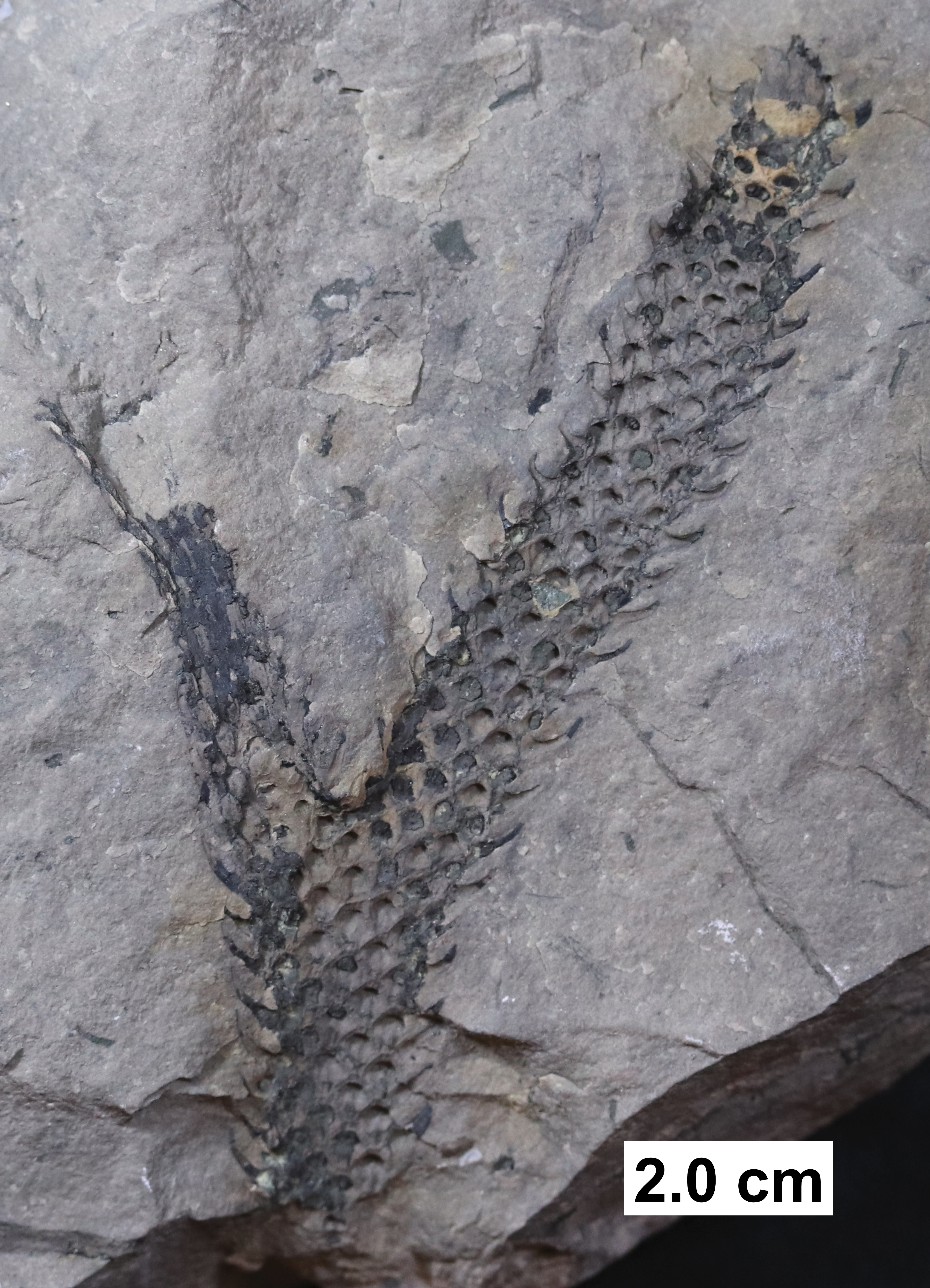 An axis (branch) from a Middle Devonian terrestrial, arborescent lycopod; Milwaukee Formation; Berthelet Member; Milwaukee County, Wisconsin; collected by Charles E. Monroe; UWM-GM 9768; photograph originally published in K.C. Gass, J. Kluessendorf, D.G. Mikulic, and C.E. Brett, 2019. Fossils of the Milwaukee Formation: A Diverse Middle Devonian Biota from Wisconsin, USA. Siri Scientific Press, Manchester, UK.